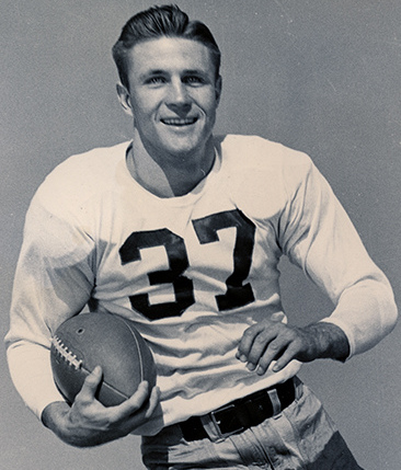 Title: Doak Walker practicing Creator: Laughead Photographers Date: 1948 Place: Dallas, Texas Physical Description: 1 photographic print: gelatin silver; 25.3 x 20.5 cm. File: athl_1948_Doakpracticing_07-406_opt.tif Rights: Please cite SMU Archives, Southern Methodist University when using this file. For more information, . For more information, see: View Southern Methodist University Campus Memories